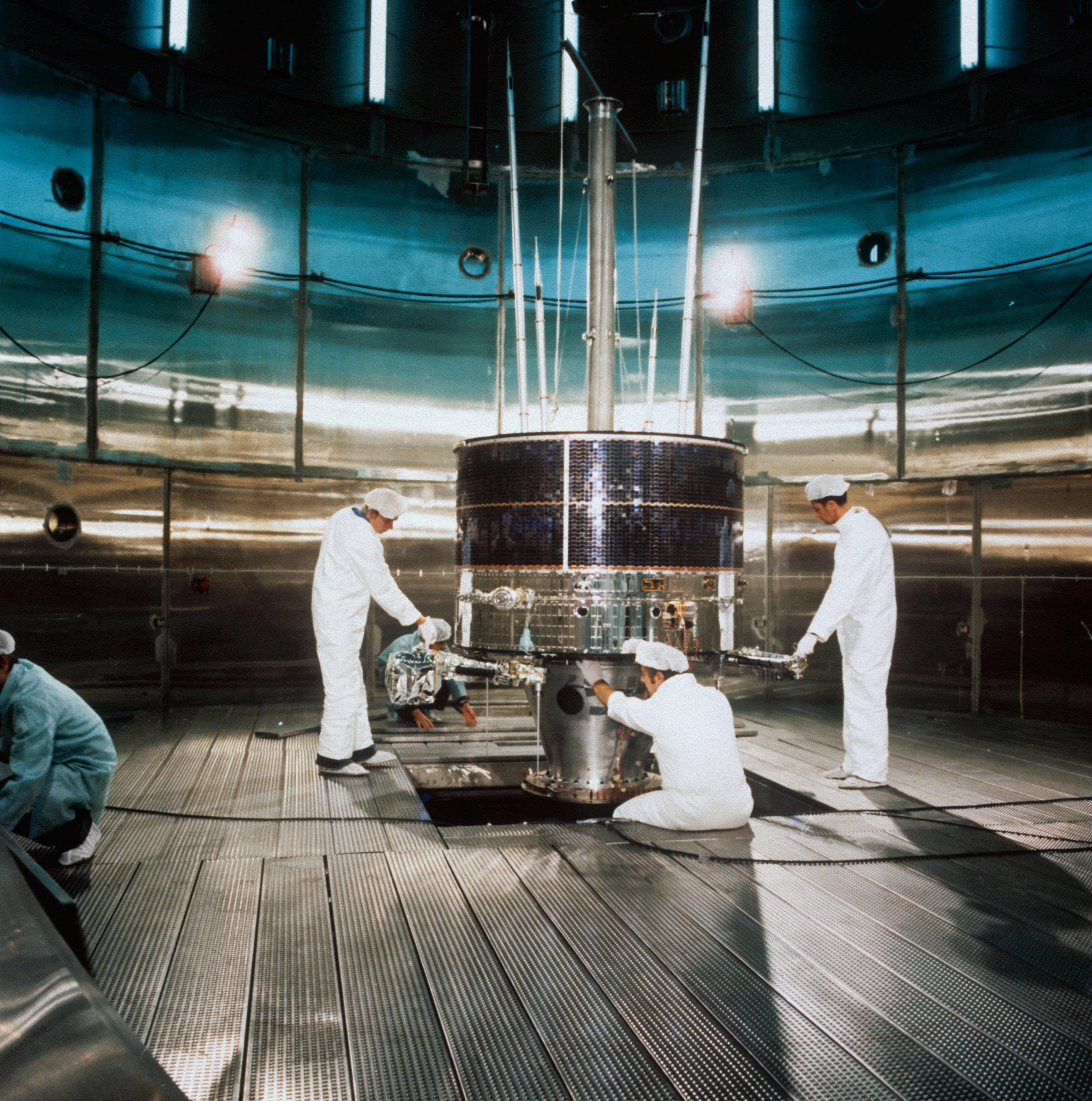 A vintage view of ESA’s Geos-1 satellite being prepared for flight at ESA’s technical centre in the Netherlands, which was launched 40 years ago this month. This first‘Geostationary Scientific Satellite’ is seen being prepared for a boom deployment test inside the Dynamic Test Chamber of the ESTEC technical centre in Noordwijk, the Netherlands. Note the solar cells mounted on the spin-stabilised satellite body. Geos-1 was designed for geostationary orbit to study the particles, fields and plasmas of Earth's magnetosphere using seven instruments provided by ten European laboratories. Because of its high orbit and the sophistication of its payload, Geos-1 was selected as the reference mission for the global 'International Magnetospheric Study'. Unfortunately, Geos-1 was left in a low transfer orbit following launch because of a problem with its US Delta launcher, reducing its ability to gather observations. As a result, the mission’s qualification model was subsequently launched as Geos-2 on 14 July 1978 with an identical payload and successfully reached the planned orbit. In spite of its orbit, Geos-1 made a significant contribution to IMS, and its mission formally ended on 23 June 1978. To learn more about past missions and space anniversaries, follow ESA’s European Space HistoryFacebookandTwitteraccounts.